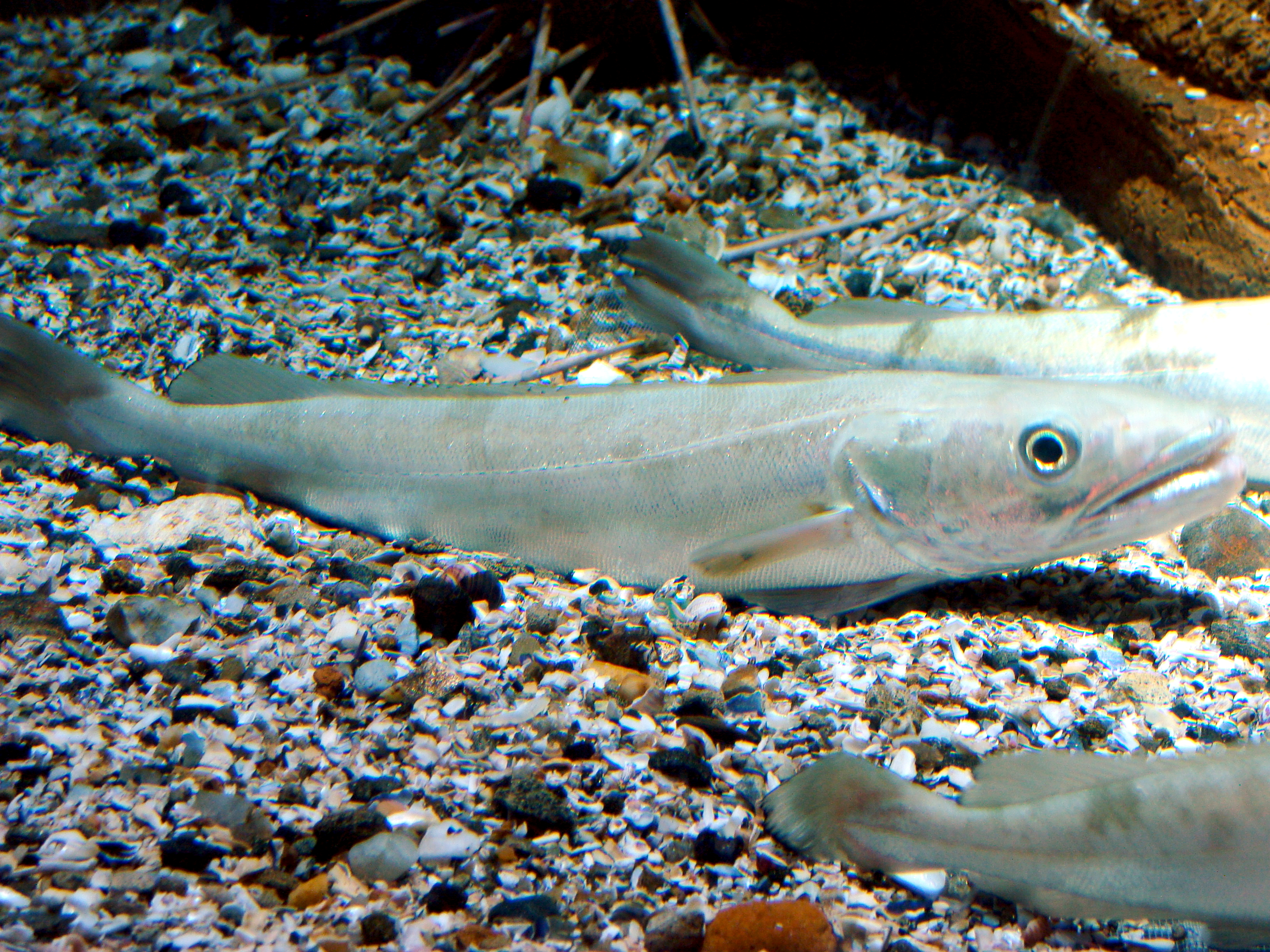 Merluccius merluccius in Sala Maremagnum of Aquarium Finisterrae (House of the Fishes), in Corunna, Galicia, Spain.